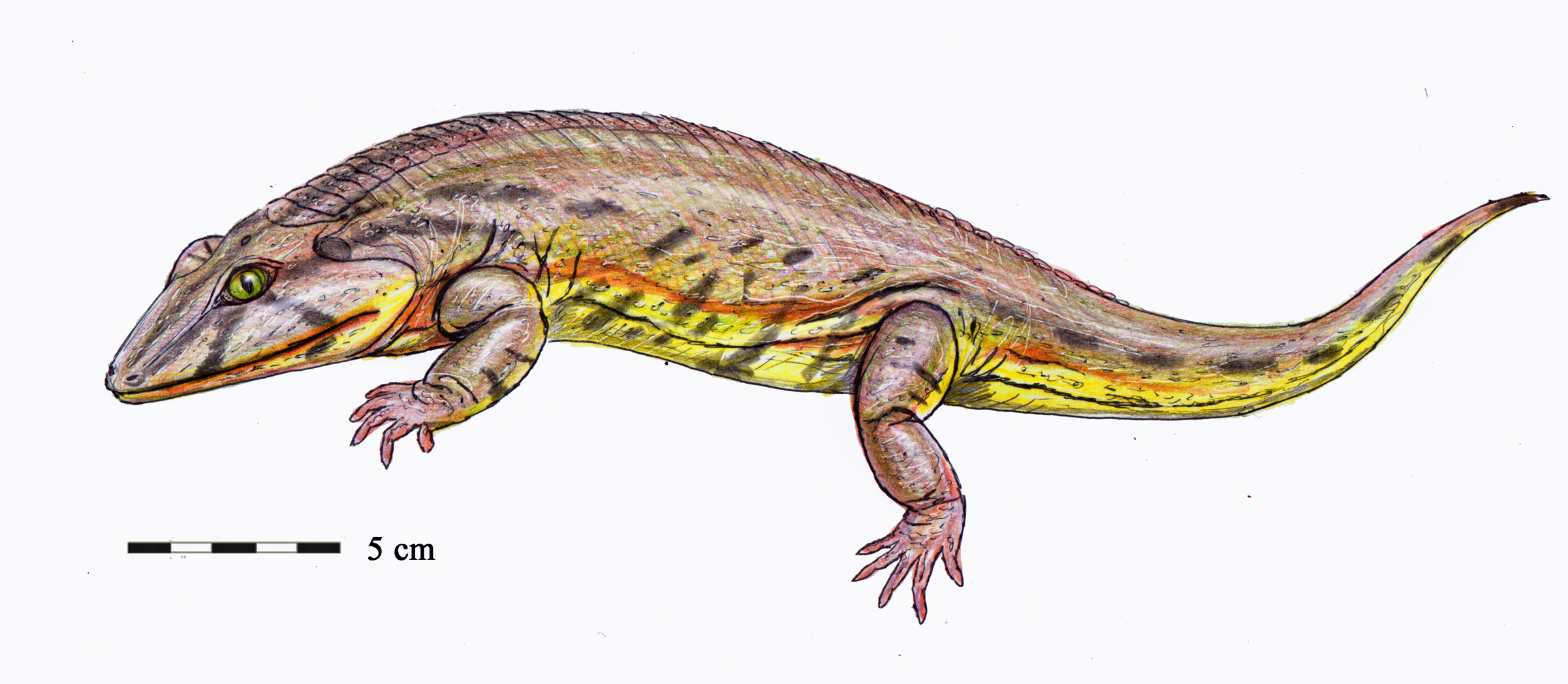 Bystrowiella schumanni , bystrowianid reptiliomorph from upper Middle Triassic (Ladinian age) deposits of Kupferzell and Vellberg, northern Baden-Württemberg, Germany